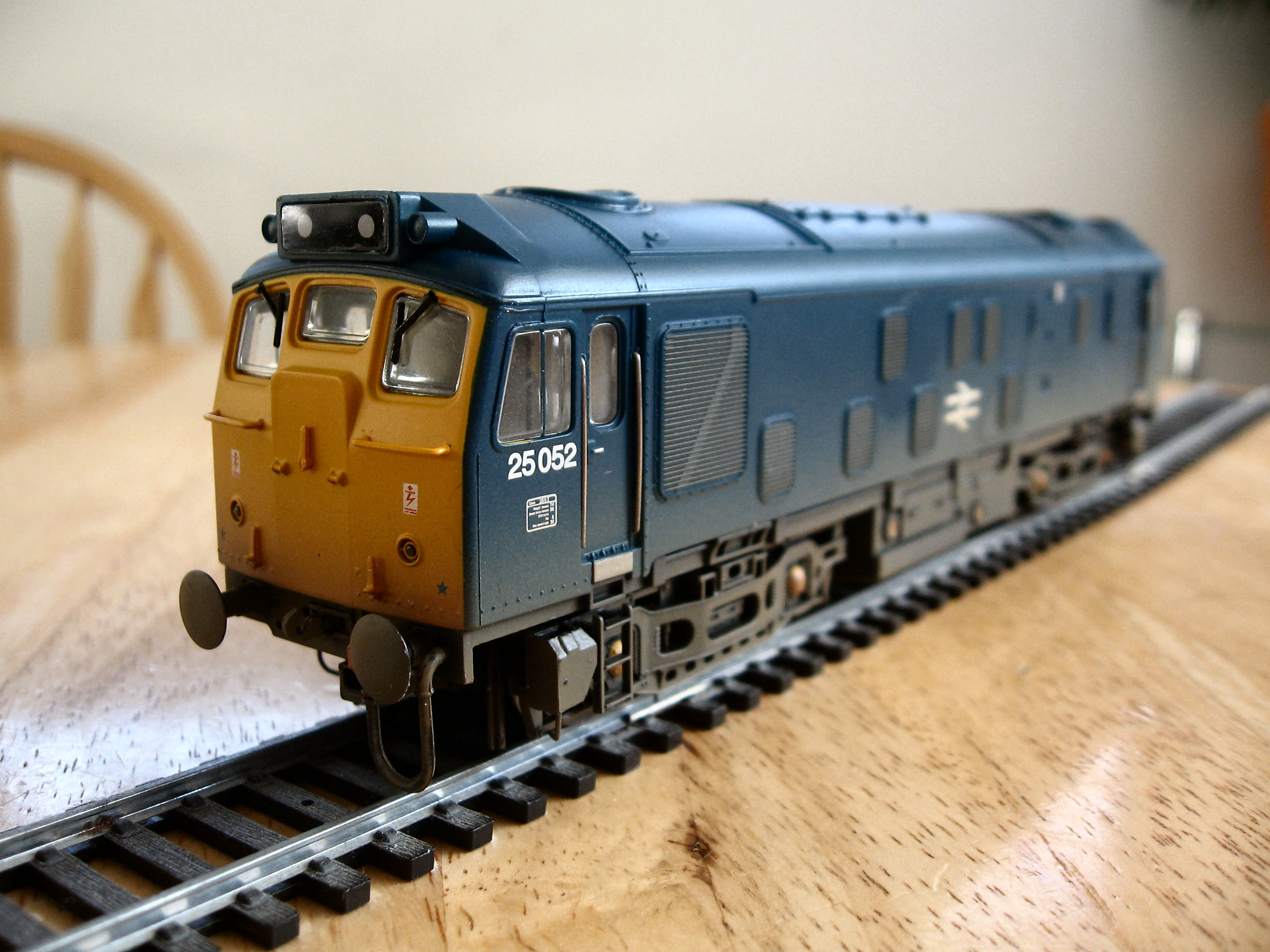 Class 25